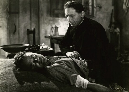 Lew Ayres (left) and Victor Jory in The Capture - publicity still (cropped : see source)